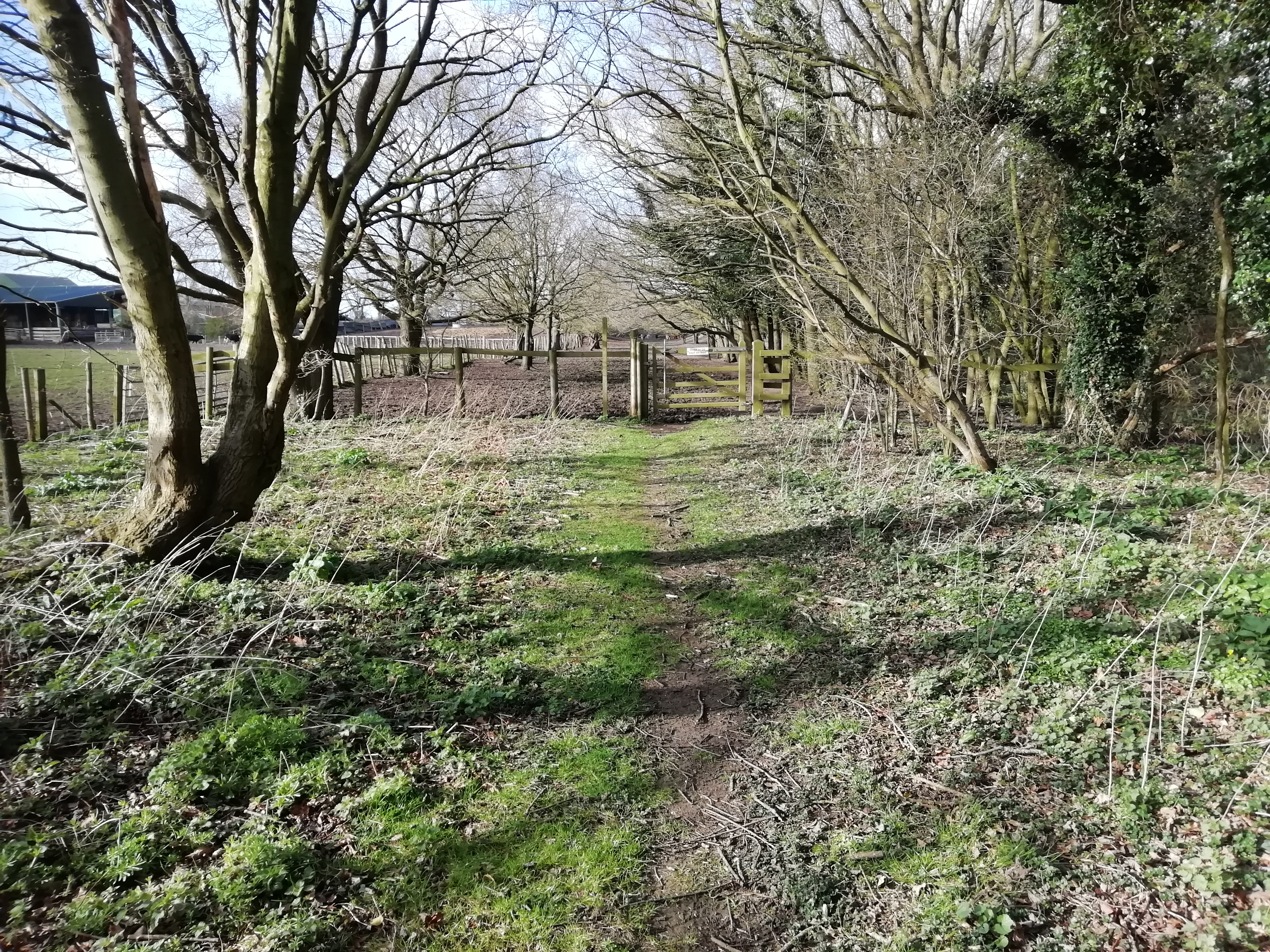 The fence and gate mark the limit of land owned by the Mid-Norfolk Railway, and covered by their permission to lay and operate a railway. Beyond this point the land is owned by local landowners, but officially protected for future rail use by Norfolk County Council.